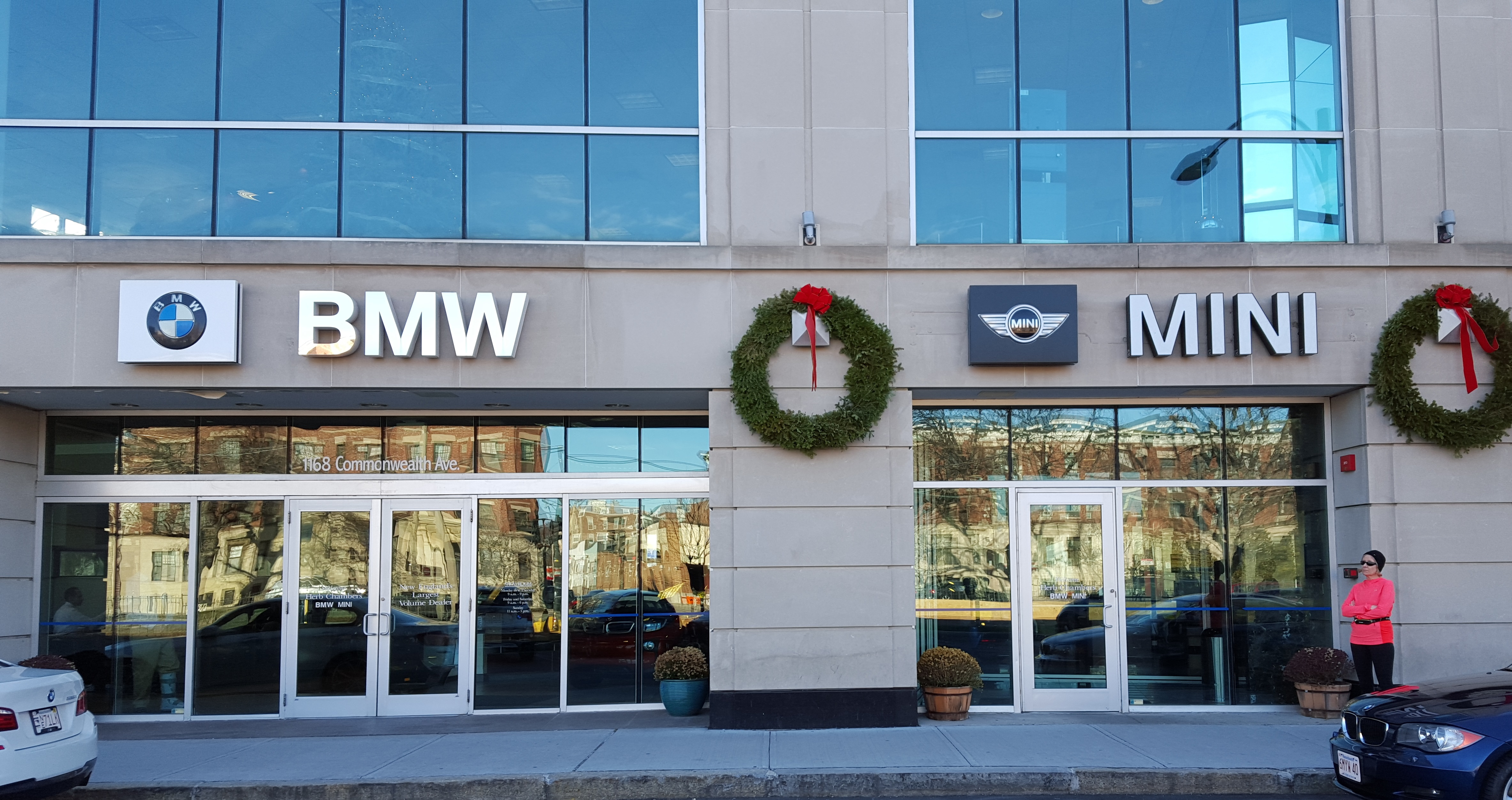 A Herb Chambers dealership in Boston. Other information Cropped from the original.